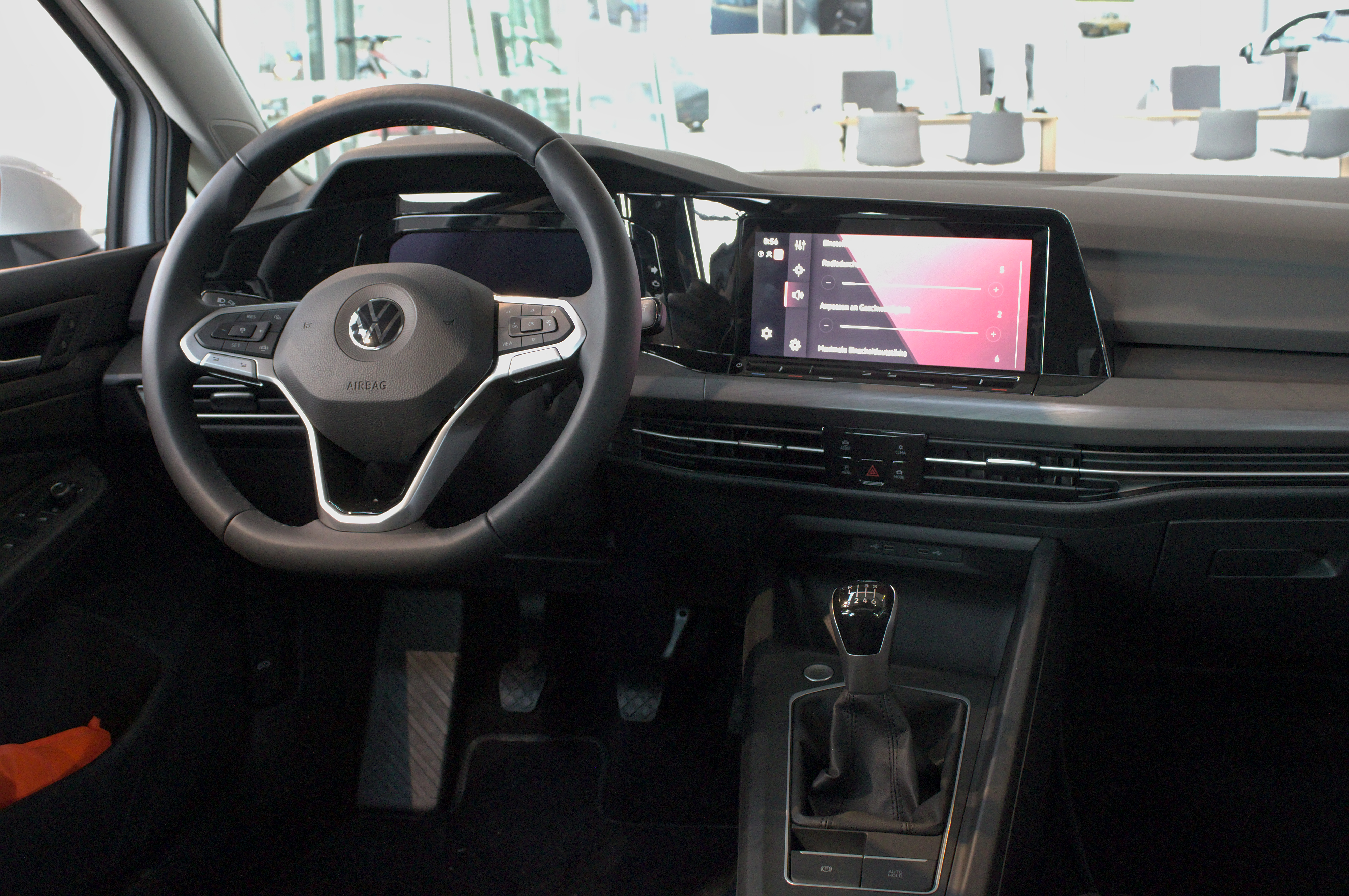 Volkswagen_Golf_VIII in Stuttgart-Vaihingen